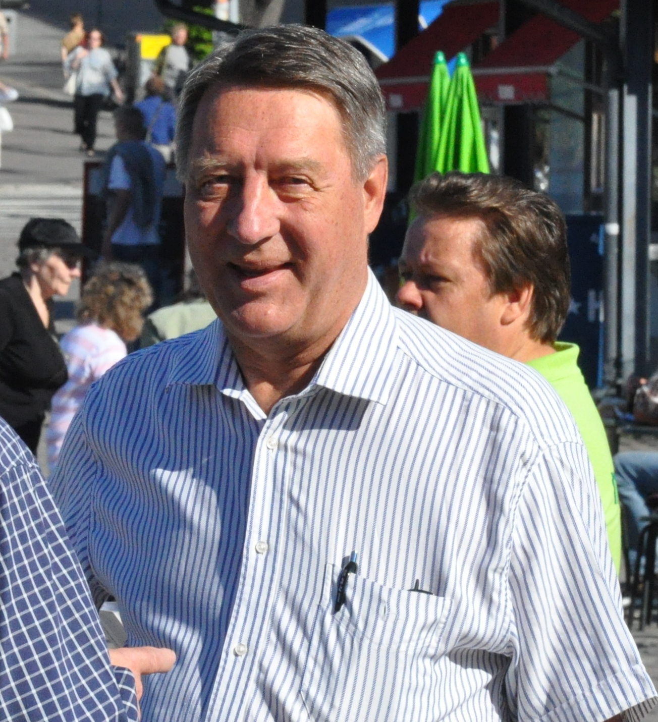 Finnish former MP and Minister Kauko Juhantalo in Turku 2009.